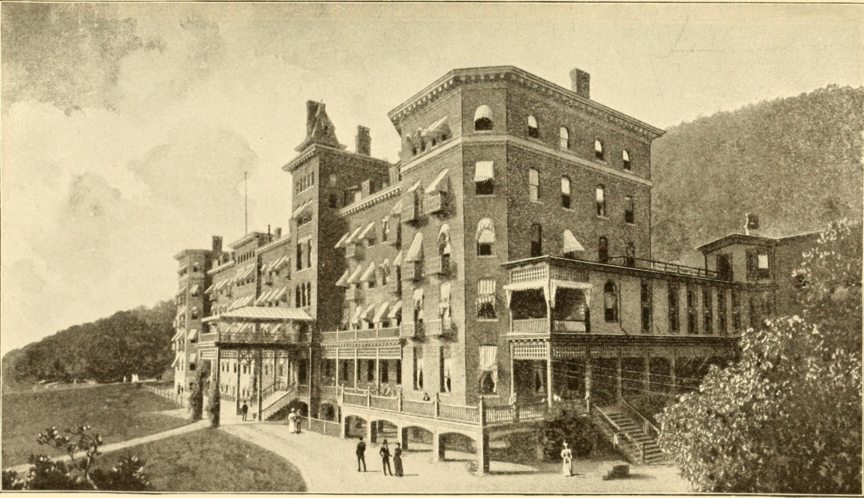 Title: Summer excursion routes and rates .. Year: 1897 (1890s) Authors: Delaware, Lackawanna and Western Railroad Company Subjects: Publisher: New York Text Appearing Before Image: MILL CREEK HKIDCE, (ll8l-T.) DANSVILLE, N. V. DANSVILLE. Altitude, 1,025 ft. 336.38 miles from New York; Single ticket, $8.00; Special ticket, $7.00.Excursion ticket, $13.30. The approach to Dansville, from either direction, is through a country aboundingin picturesque scenery, which apparently culminates in the surroundings of this hill-encircled town. Lying 400 feet below the railroad, it is enclosed on three sides by anampitheatre of hills which, on either hand, stretch far away and are lost on the dis- DELAWARE, LACKAWANNA & WESTERN K. K. 103 Text Appearing After Image: 104 DELAWARE, LACKAWANNA & WESTERN R. R.